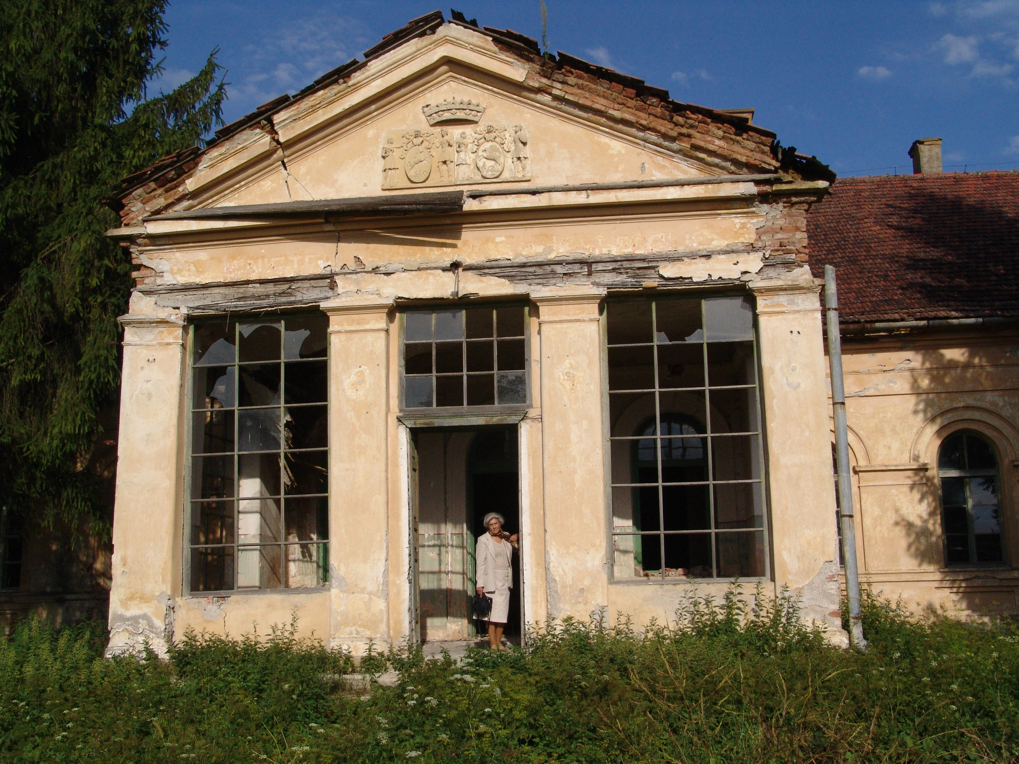 gróf Kornis Gabriella Szentbenedeken 2005-ben